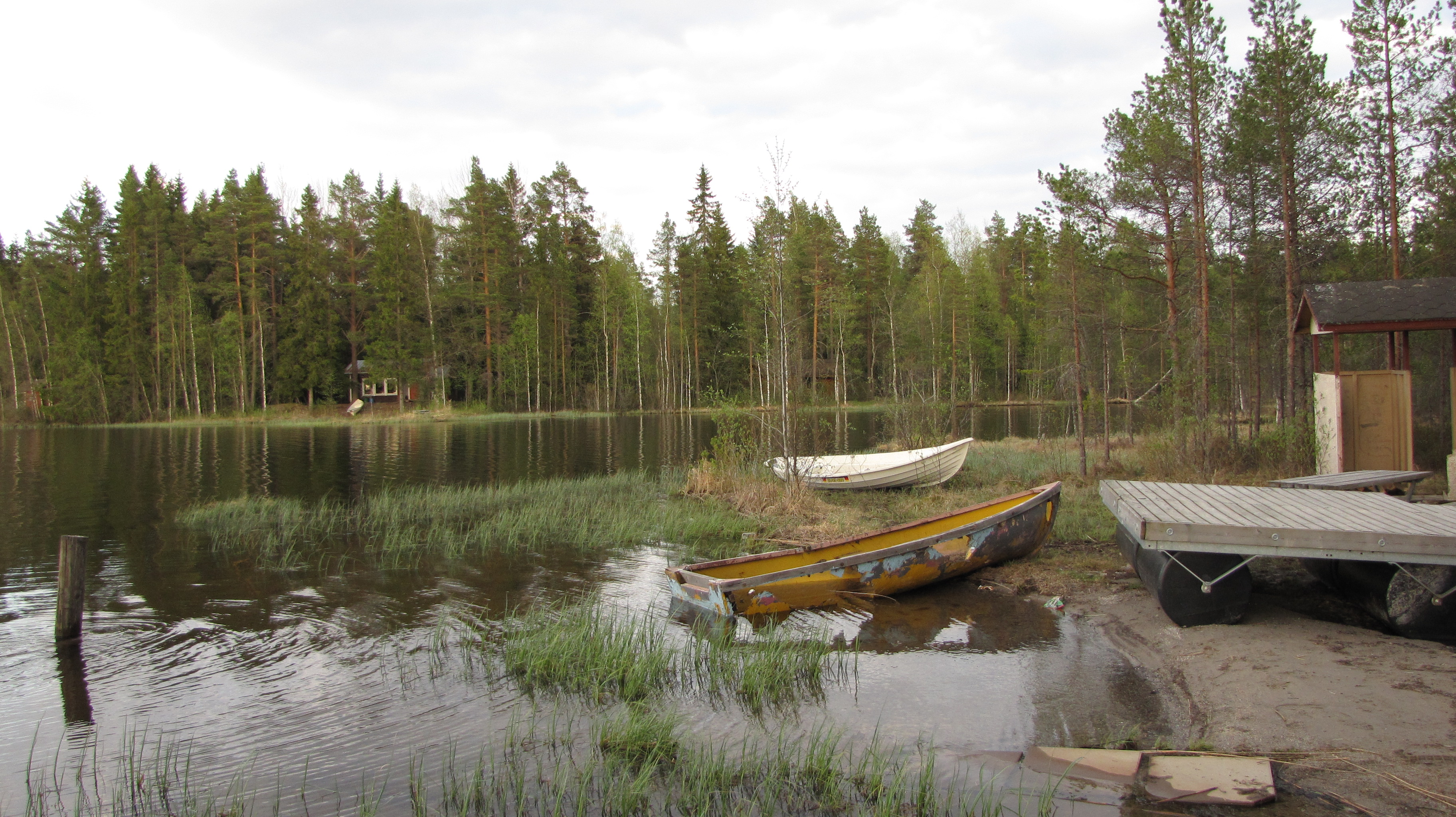 Public beach on Lake Korvajärvi, Jalasjärvi, Finland.